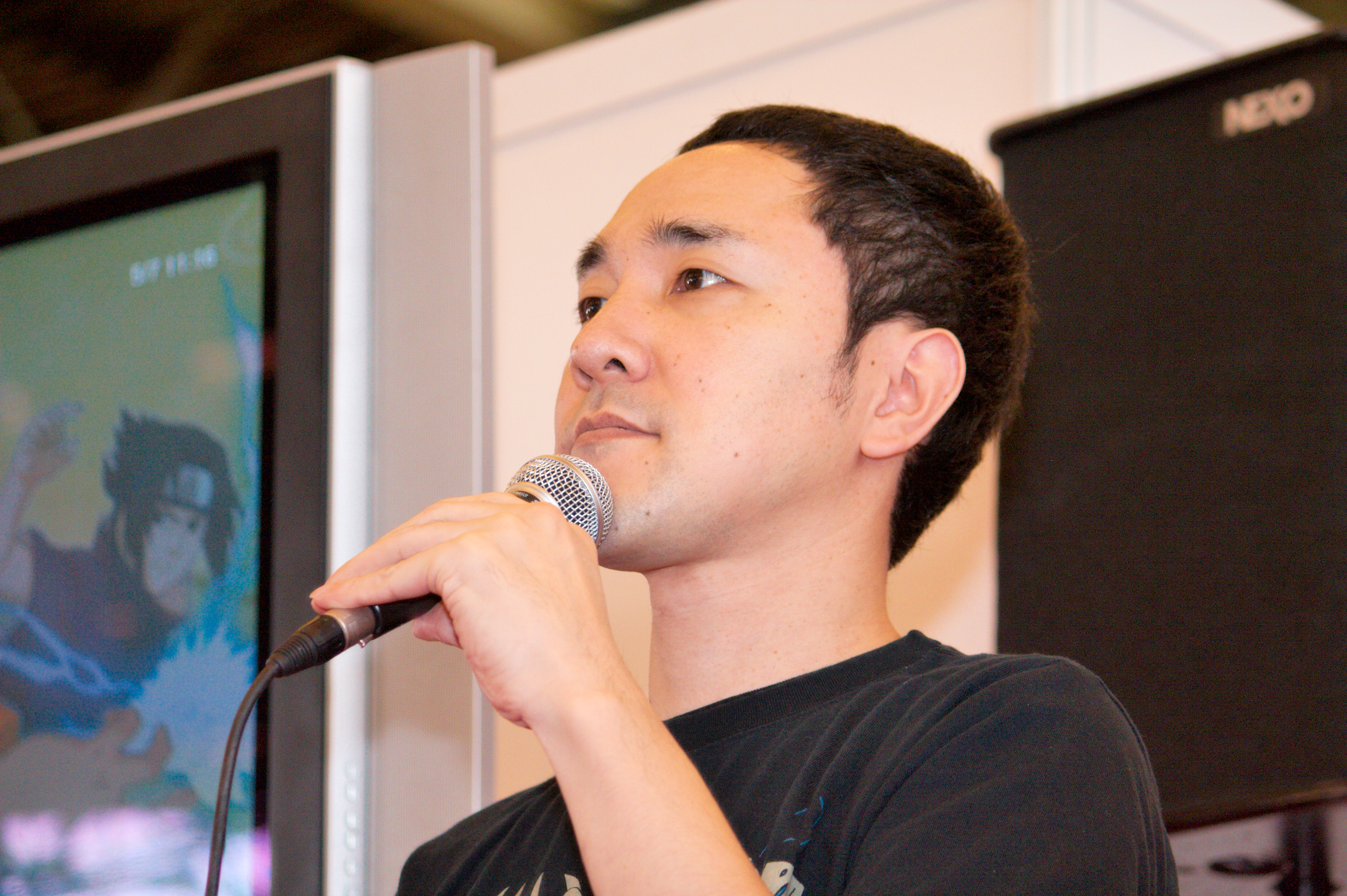 Conference with Hiroshi Matsuyama at Japan Expo 2008 (Paris, France).